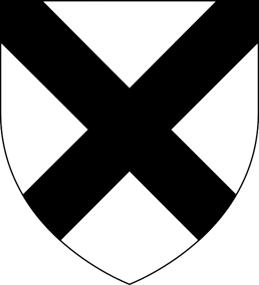 Coat of Arms: Argent, a saltire Sable